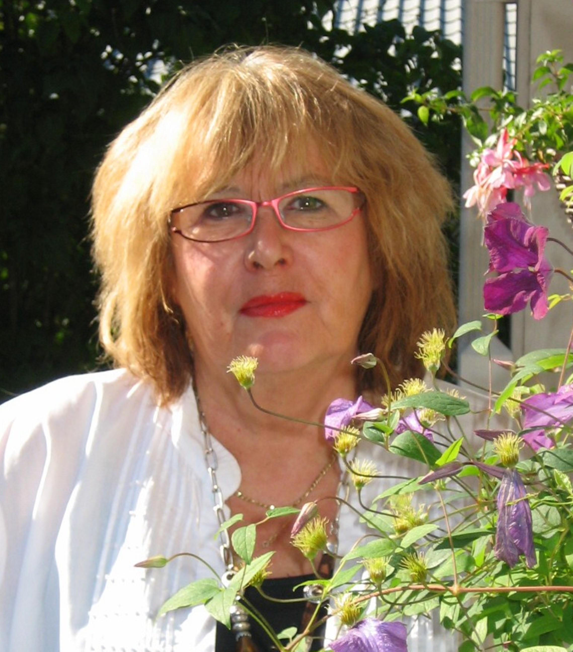 Mervi Pohjanheimo, TV Producer-Director, Finland